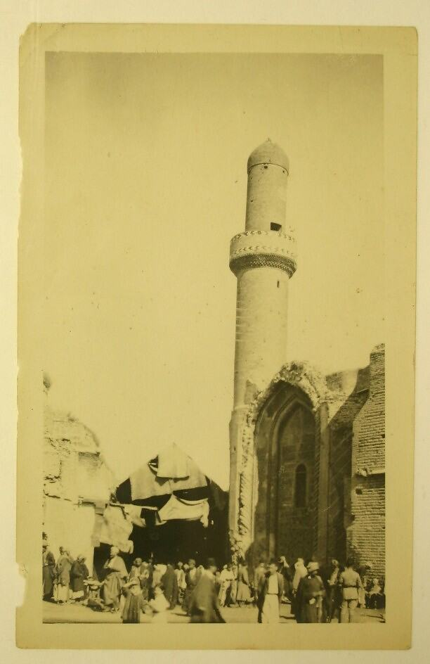 Street Scene with Minaret, in Baghdad, Iraq, World War I, 1916-1919